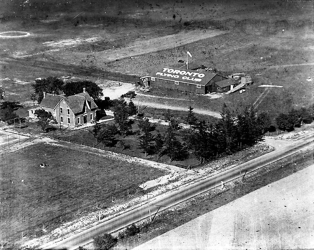 Toronto Flying Club at the Toronto Aerodrome in North York, Toronto, Ontario, Canada. This site became the south end of Downsview Airport and the Toronto Transit Commission Wilson Yard.